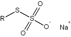 Structure of the bunte salts